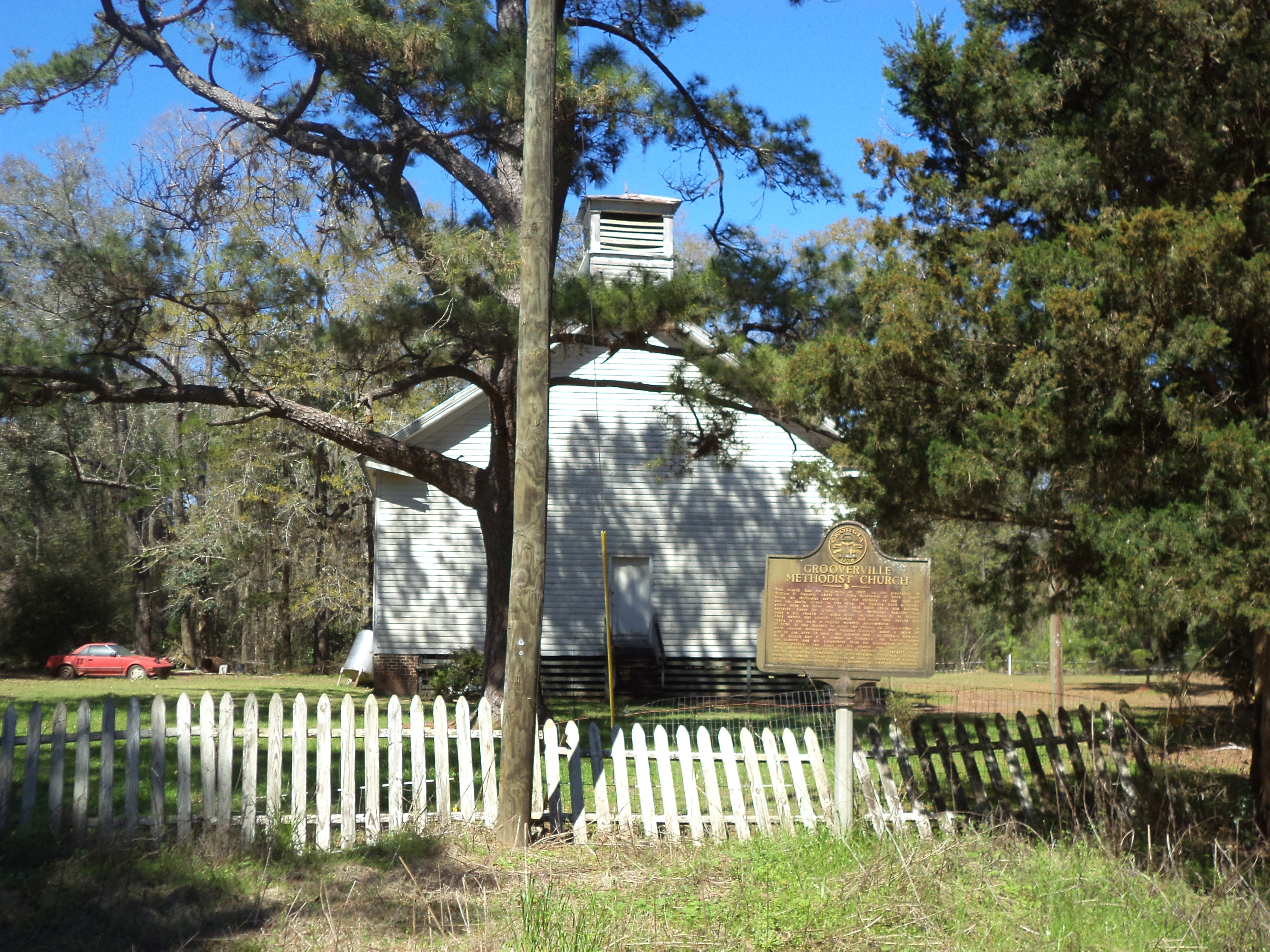 Grooverville Methodist Church and Historical Marker, Beasley Rd., Grooverville, Brooks County, Georgia